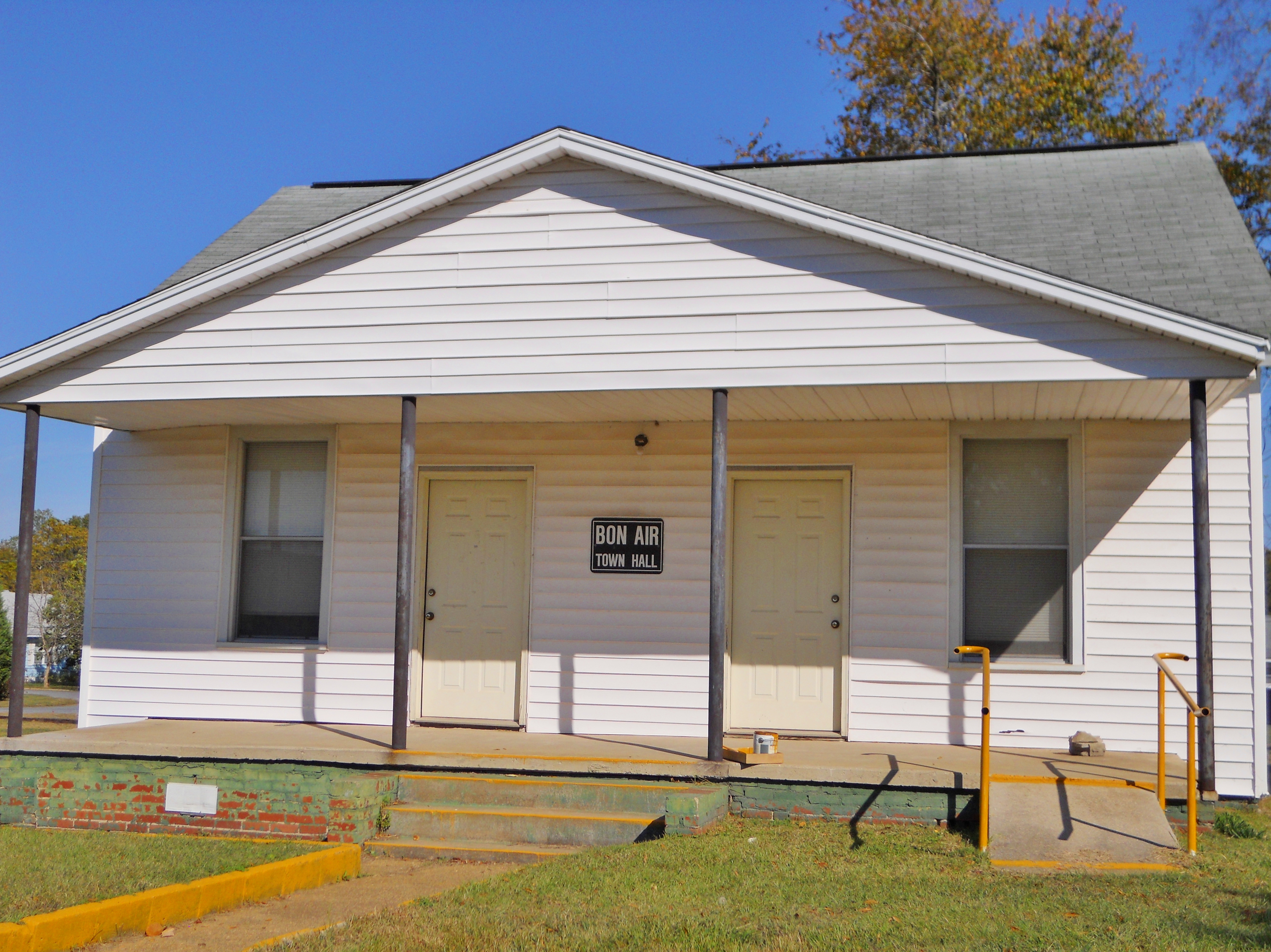 This is a photo of the town hall in Bon Air, Alabama